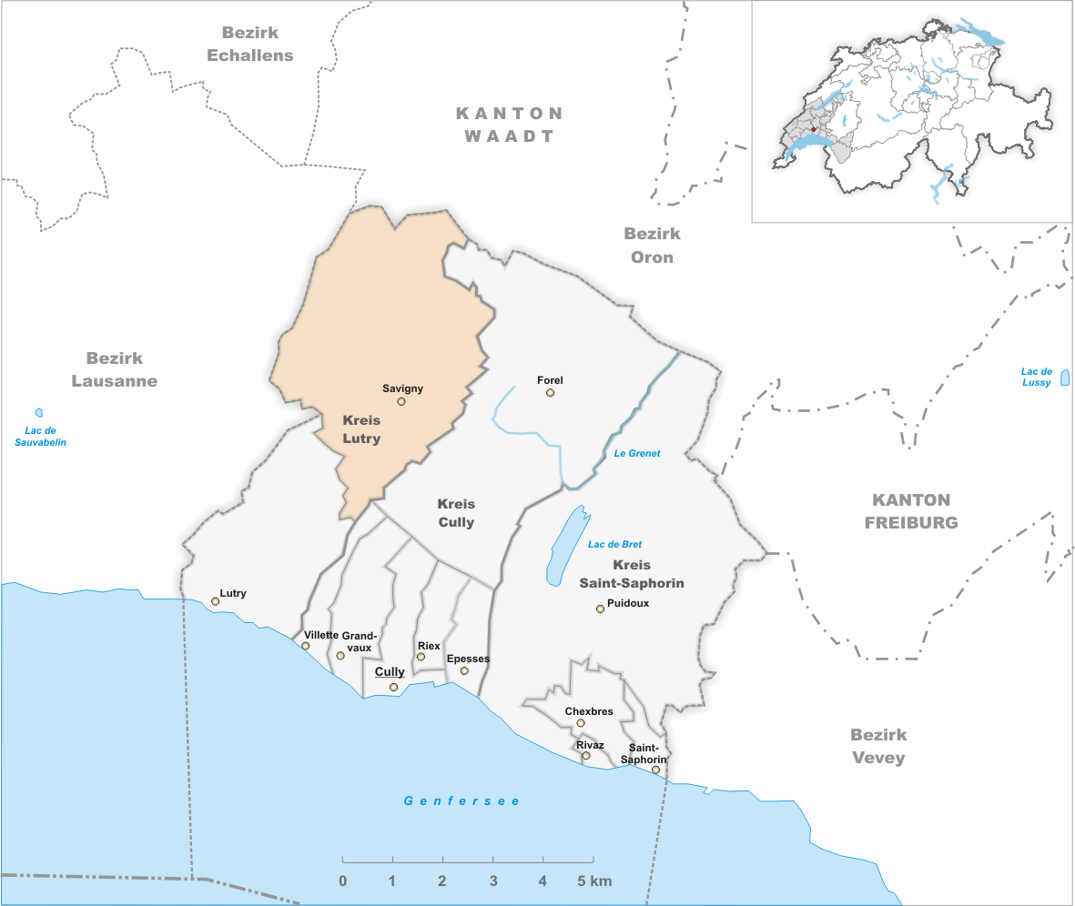 Municipality Savigny